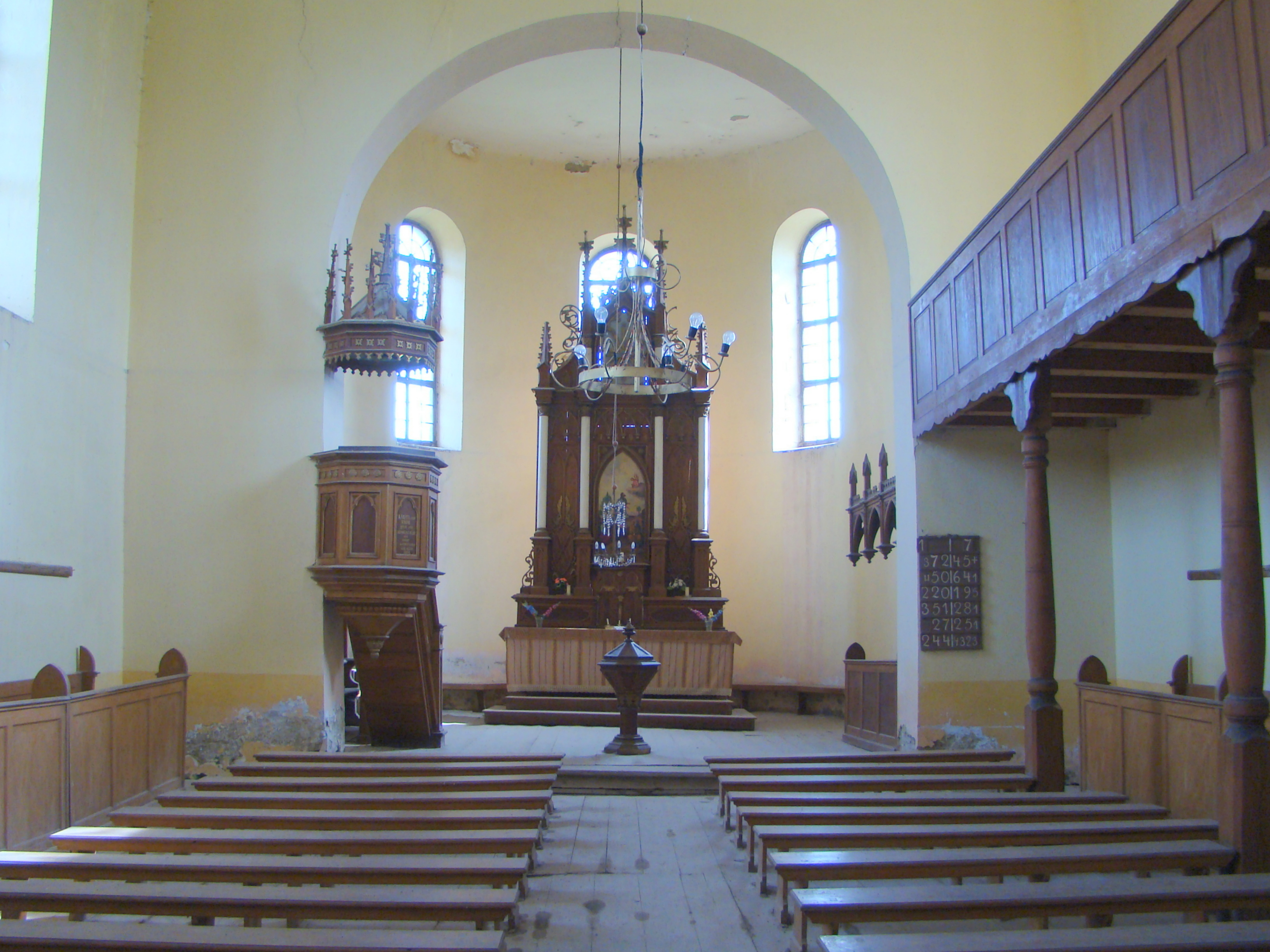 Lutheran church in Sântioana, Mureș County, Romania